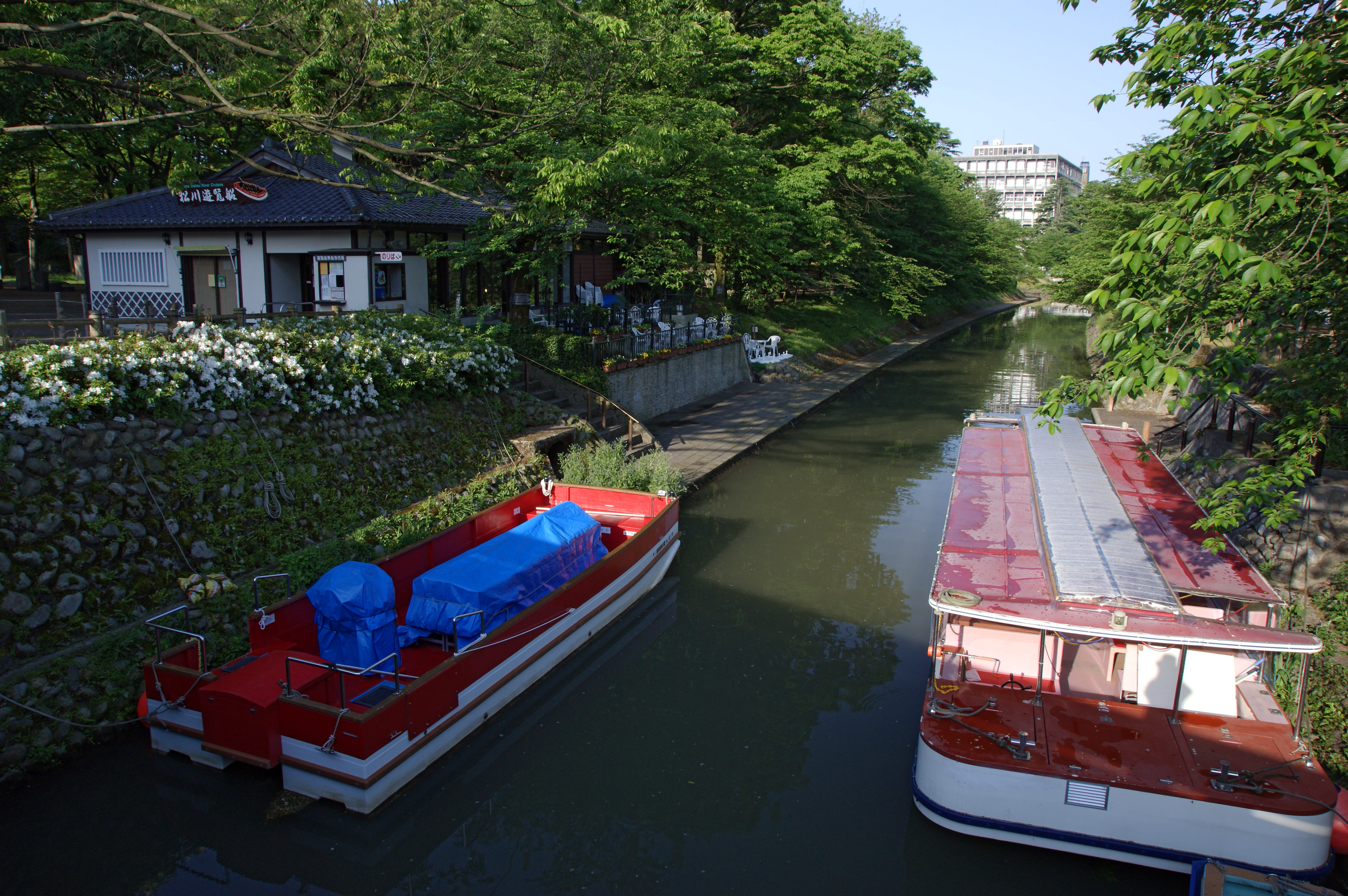 Matsukawa River in Toyama, Toyama prefecture, Japan